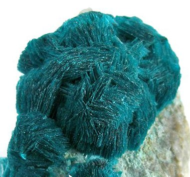 Devilline Locality: Špania Dolina (Urvölgy; Herrengrund), Špania Dolina ore belt, Starohorské Mts, Banská Bystrica Region, Slovakia (Locality at ) Size: miniature, 4.7 x 2.4 x 2.2 cm Devilline This is an extremely important specimen of the mineral formerly known as "Herrengrundite," clearly of a very rare and unique habit that dates it to major finds here in the mid-1800s . Specimens are represented in this quality only in museums today (and in a very few specimens in private hands, such as a famous piece ex. Archduke Stephan collection which I had the luck to handle in 2001!). Clusters of robust large crystals such as these, on the contrasting matrix, have been sought after by collectors ever since, and though more devilline has been found in recent years it has not approached this quality. The piece is very beautiful and elegant, making this a competition-level miniature with unusual balance and aesthetics. As well, it is simply significant for the rarity and historic importance of the species.